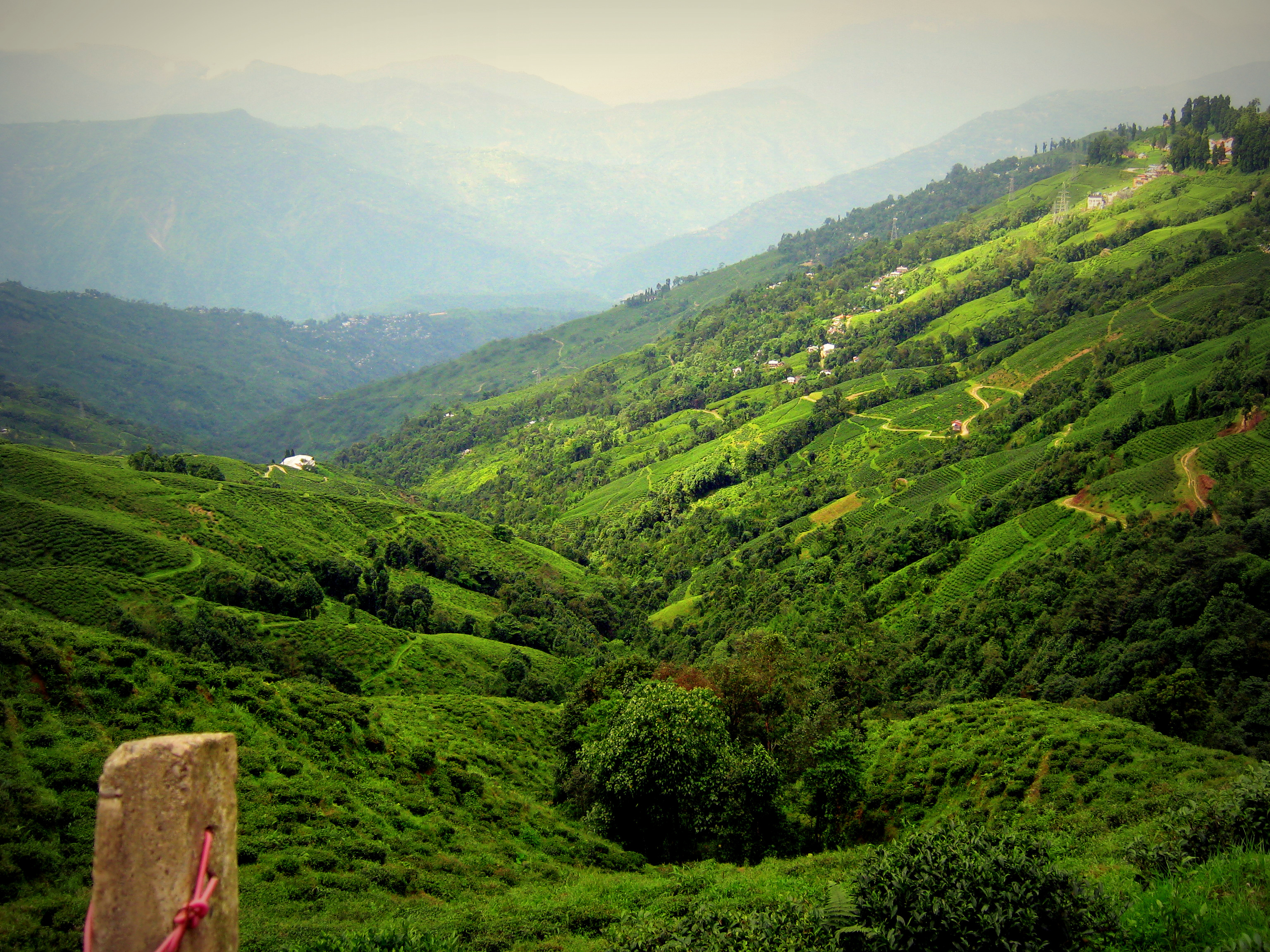 A view of the tea gardens in Darjeeling